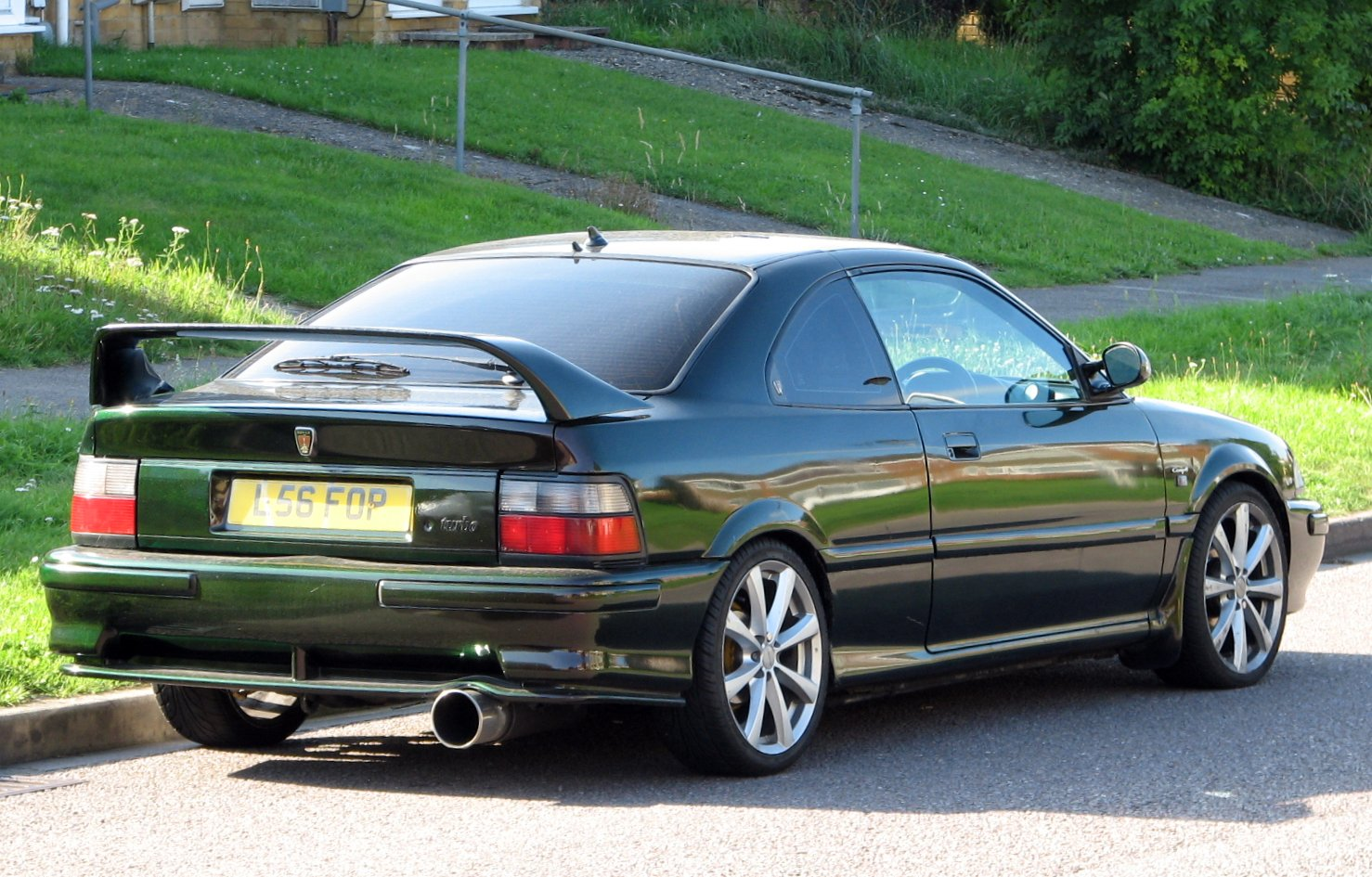 1993 / 1994 green Rover 220 Coupe - spoiler and exhaust silencer are not standard (and not to my taste...)